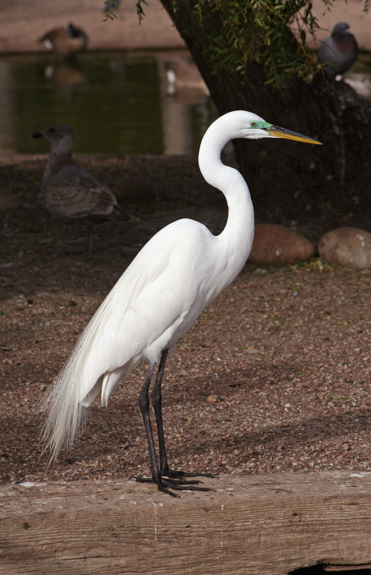 Great Egret (Ardea alba) taken at Lake Merritt in Oakland, CA USA.